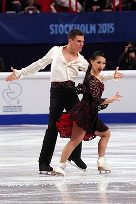 Misato Komatsubara and Andrea Fabbri at the 2015 European Championships - SD